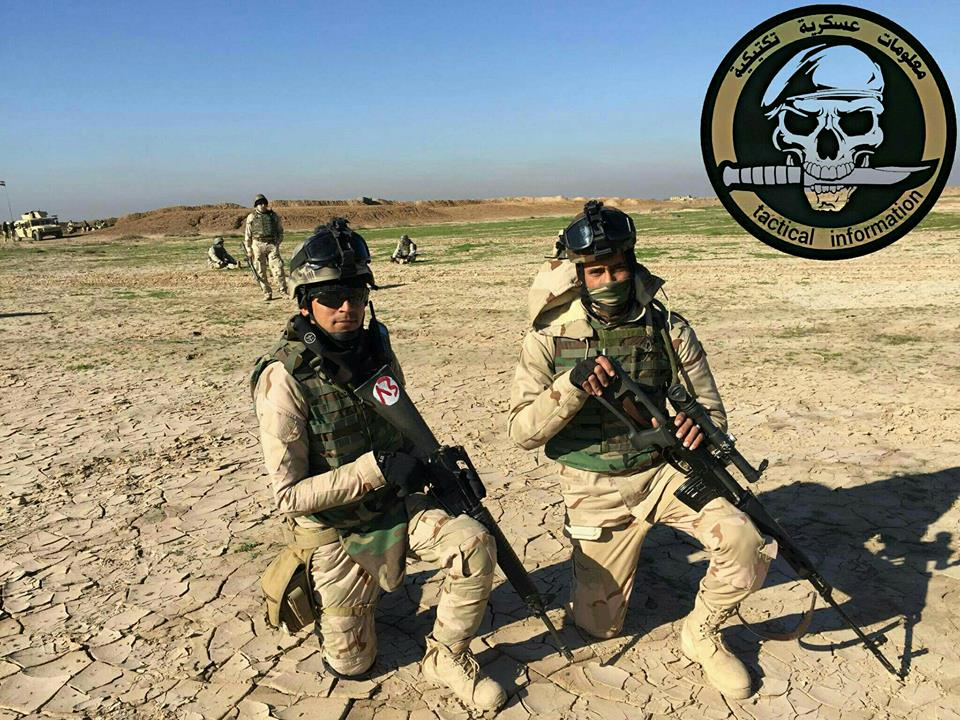 Two Iraqi soldiers